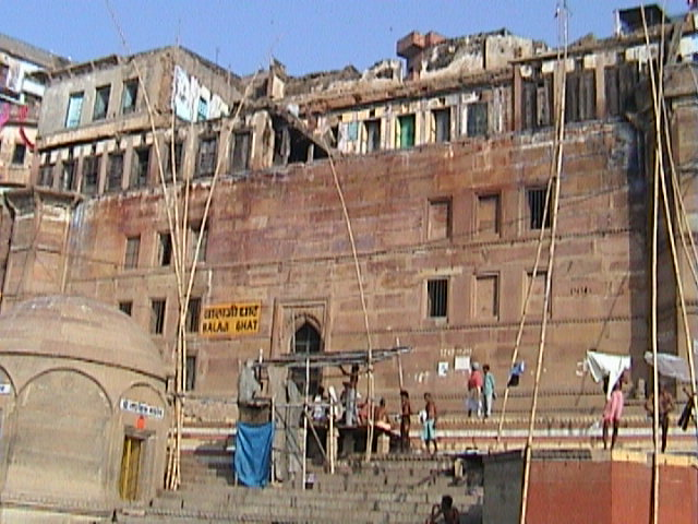 Hindu culture, have attributed supreme importance to the preservation of tradition Classical civilizations, and especially the Indian one, have attributed supreme importance to the preservation of tradition. Its central idea was that social institutions, scientific knowledge and technological applications need to use "heritage" as a "resource". Using contemporary language, we would say that ancient Indians considered, as social resources, both economic assets (like natural resources and their exploitation structure) and factors promoting social integration (like institutions for preserving knowledge and maintaining civil order). Ethics considered that what had been inherited should not be consumed, but should be handed over, possibly enriched, to successive generations. This was a moral imperative for all, except in the final life stage of sannyasa